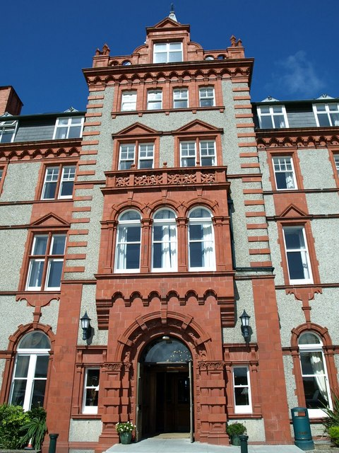 Headland Hotel, Newquay